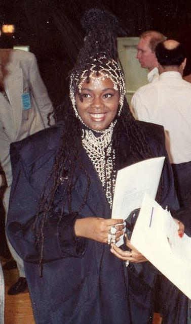 Caron Wheeler at the Grammy Awards (cropped)